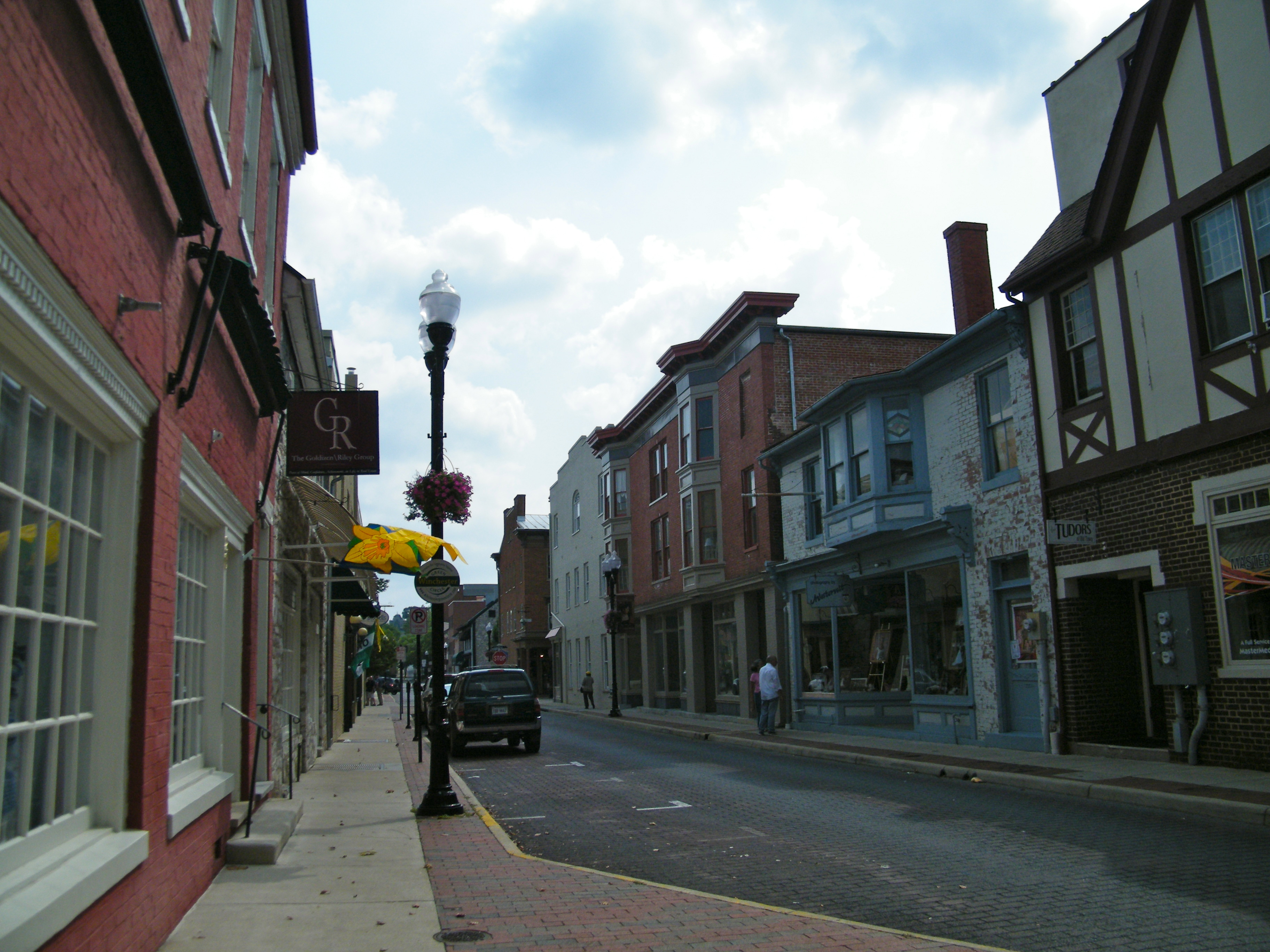 Part of the downtown area of Winchester, Virginia.